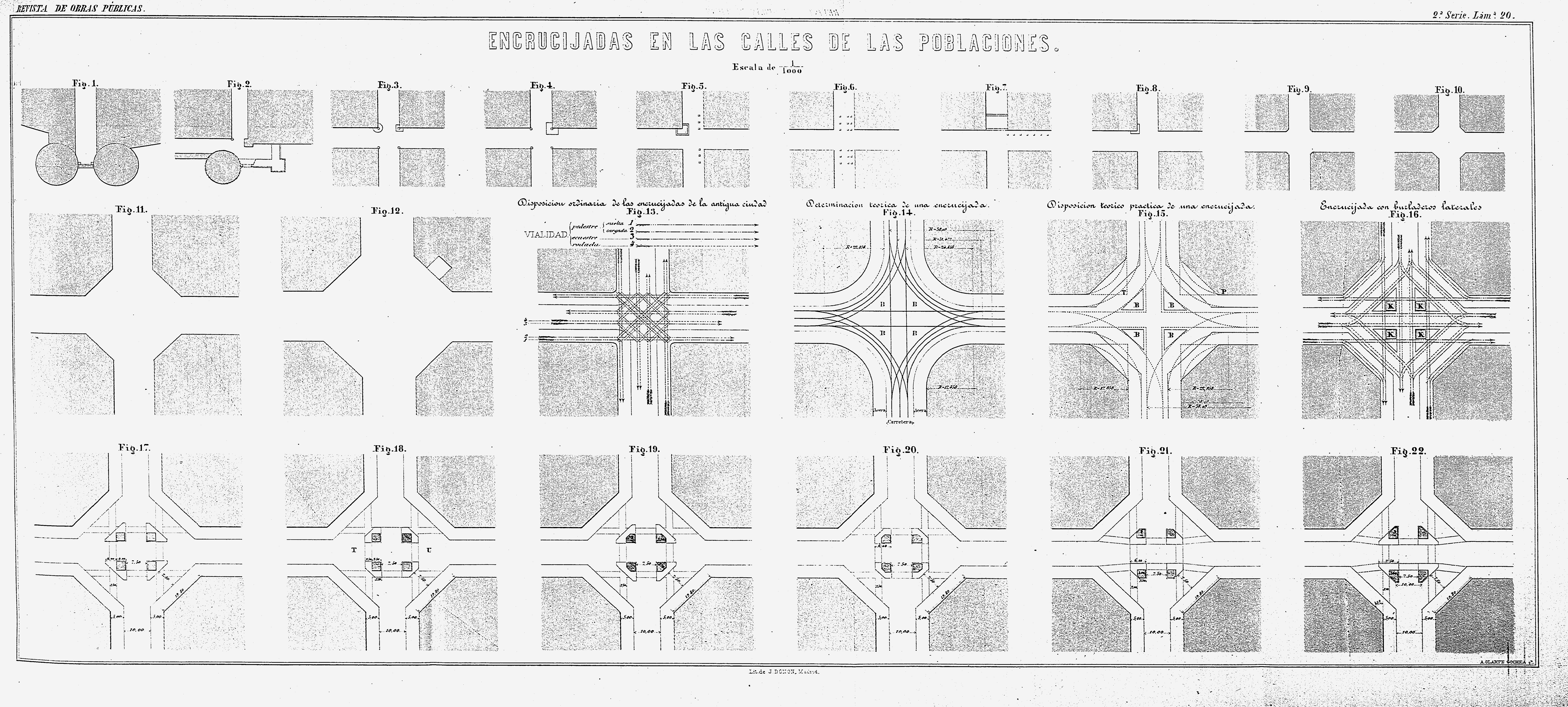 Eixample map of Barcelona. Map of crossing streets in "Pla Cerdà", 1859.